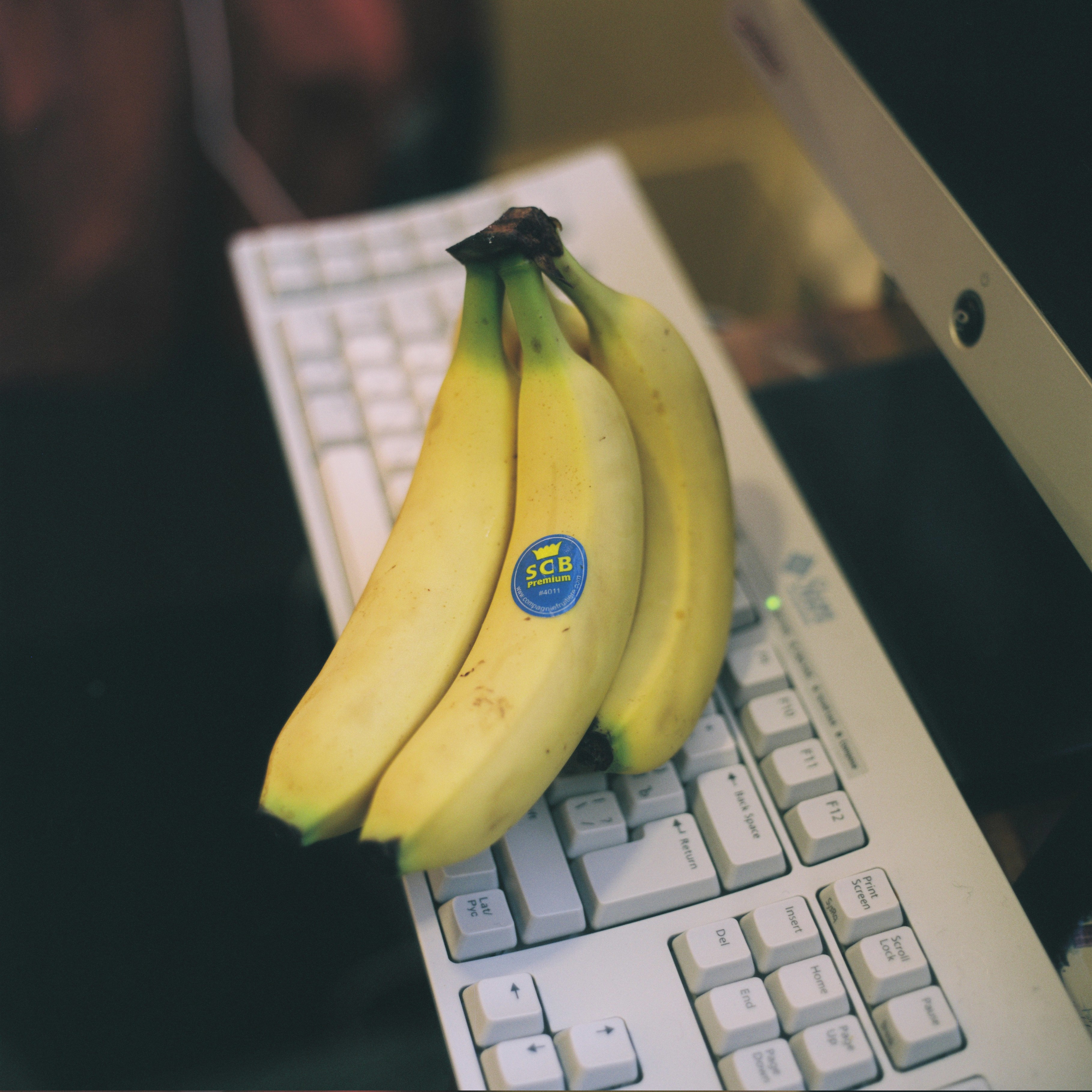 SCB Bananas